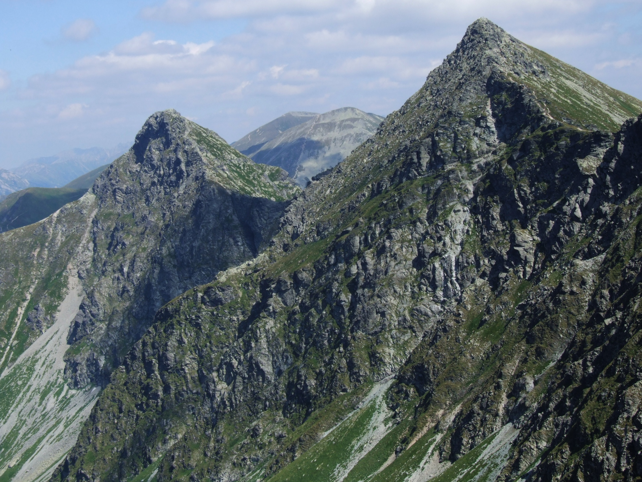 Rohače (Rohacze) - West Tatra Mountains